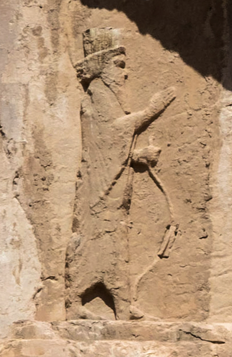 Artaxerxes I at Naqsh-e Rostam